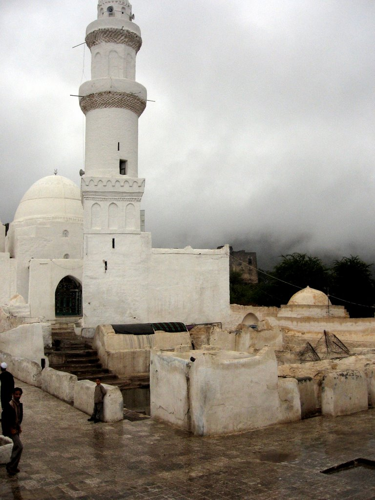 Yifrus old mosque with reservoir still operating